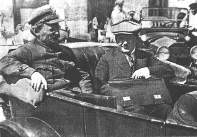 Leo Trotsky (left) and Leonid Serebryakov (right) in the Car